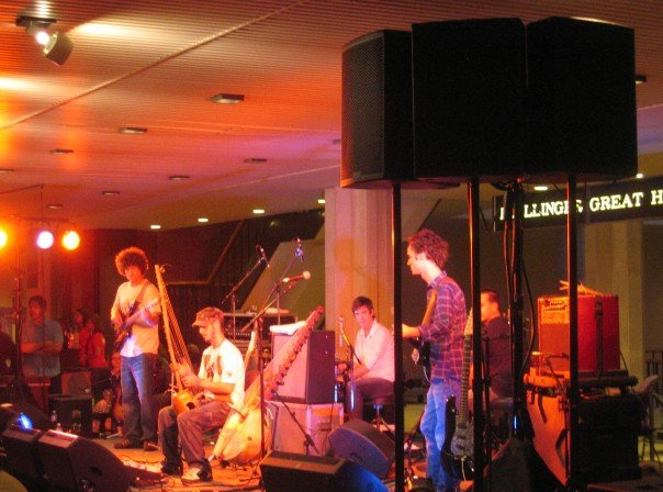 Toubab Krewe performing at the 2007 Wall to Wall Guitar Festival in Urbana, Illinois